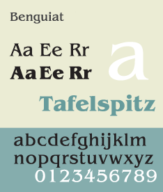 Specimen of the typeface Benguiat. Jim Hood